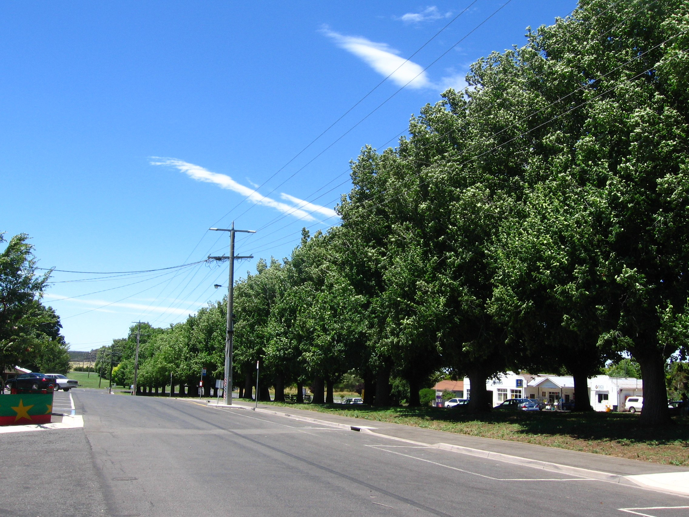 Avenue of trees at Derrinallum, Victoria